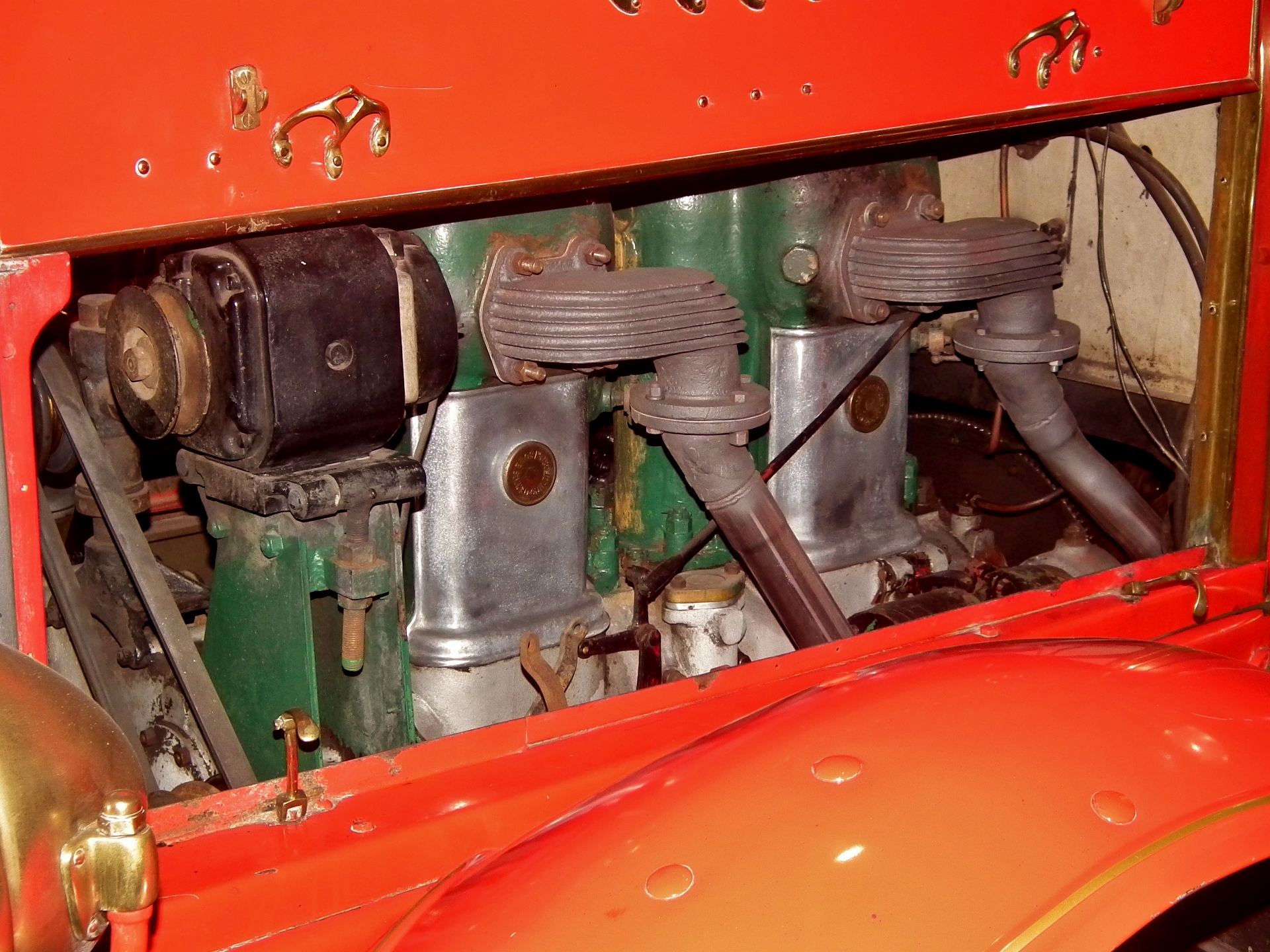 1929 Dennis Morris-Magirus turntable ladder engine. Taken at the Museum of Fire, Penrith, NSW.